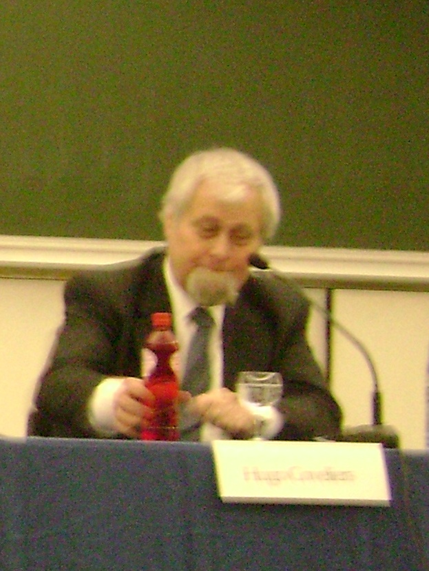 Belgian politician Hugo Coveliers (Leuven, 2010)